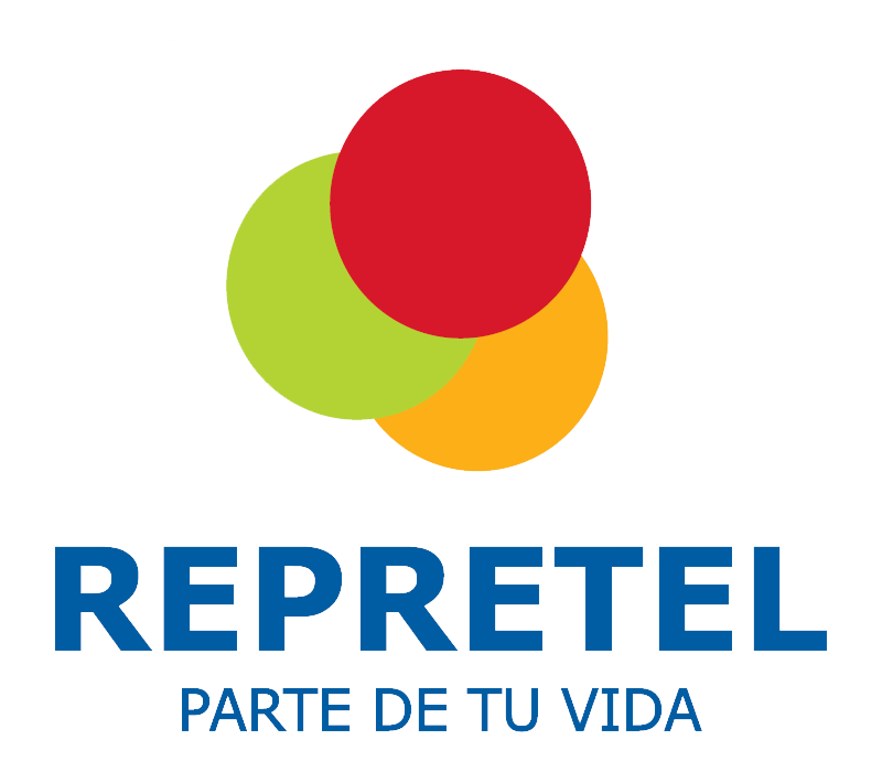 Logo of Repretel, a Costa Rican media company